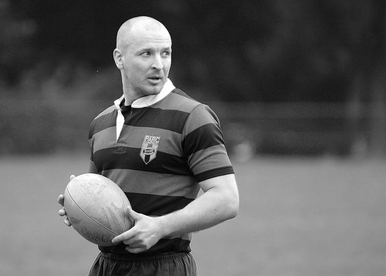 Ionuţ Caragea, rugby player. I`m back! 7 septembrie 2008 (Fotografie permisă spaţiului public, Free public domain image)